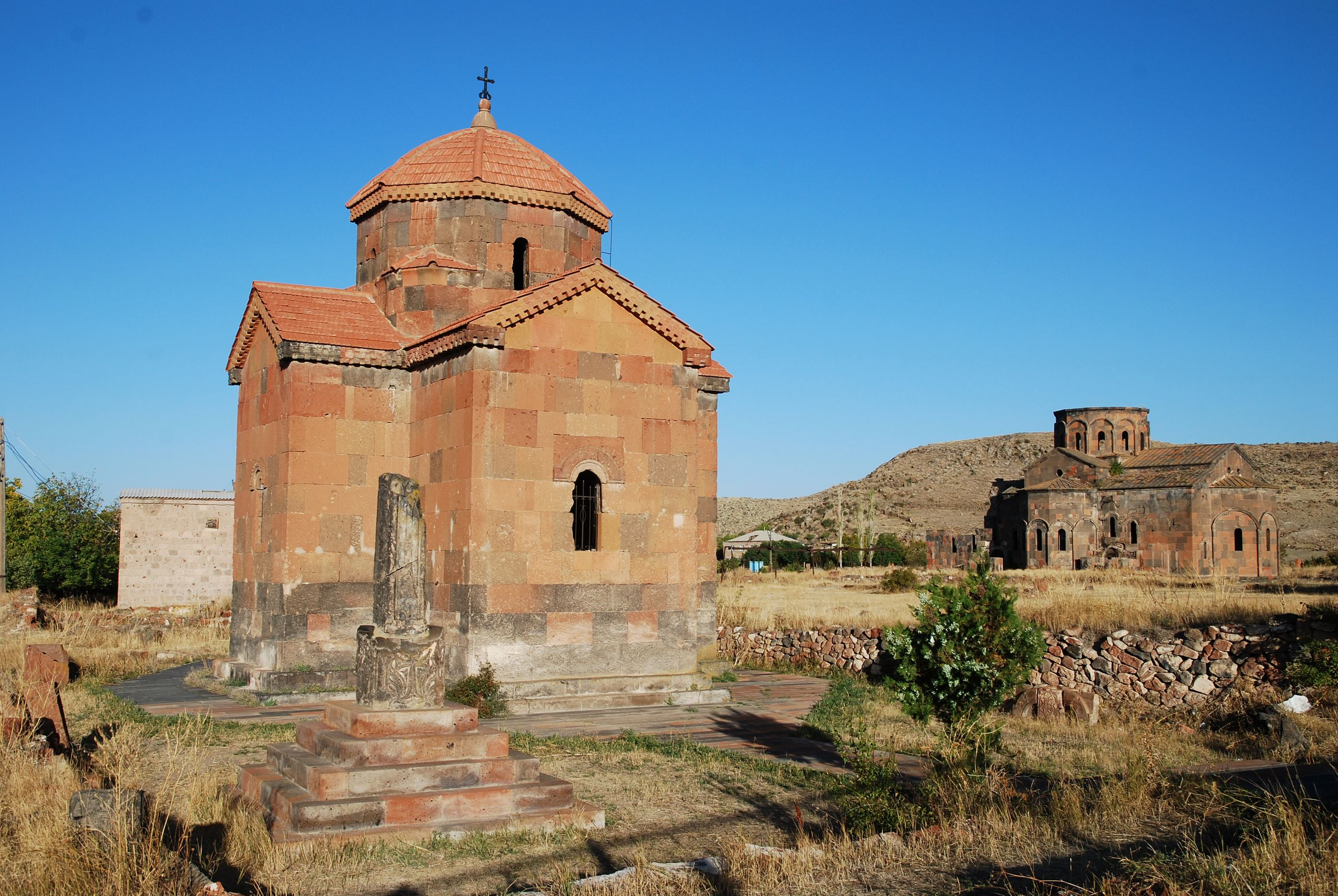 Talin, small church and cathedral